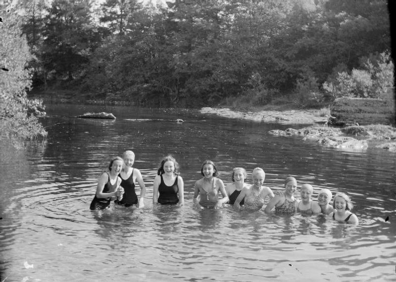 London Evacuees in Carmarthenshire, Wales, 1940 Girls from Notre Dame High School in Battersea, London enjoy a swim in the Tywi river at Llandovery, Carmarthenshire, Wales in 1940.